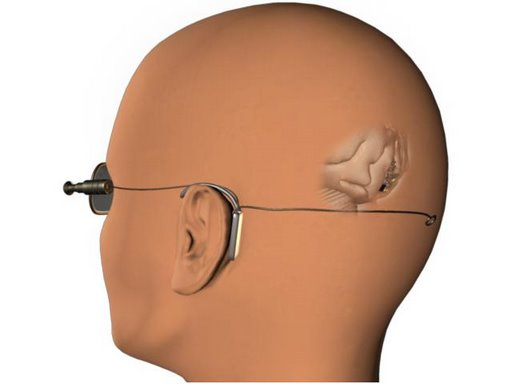 Visual cortical implant designed by Profesor Mohamad Sawan